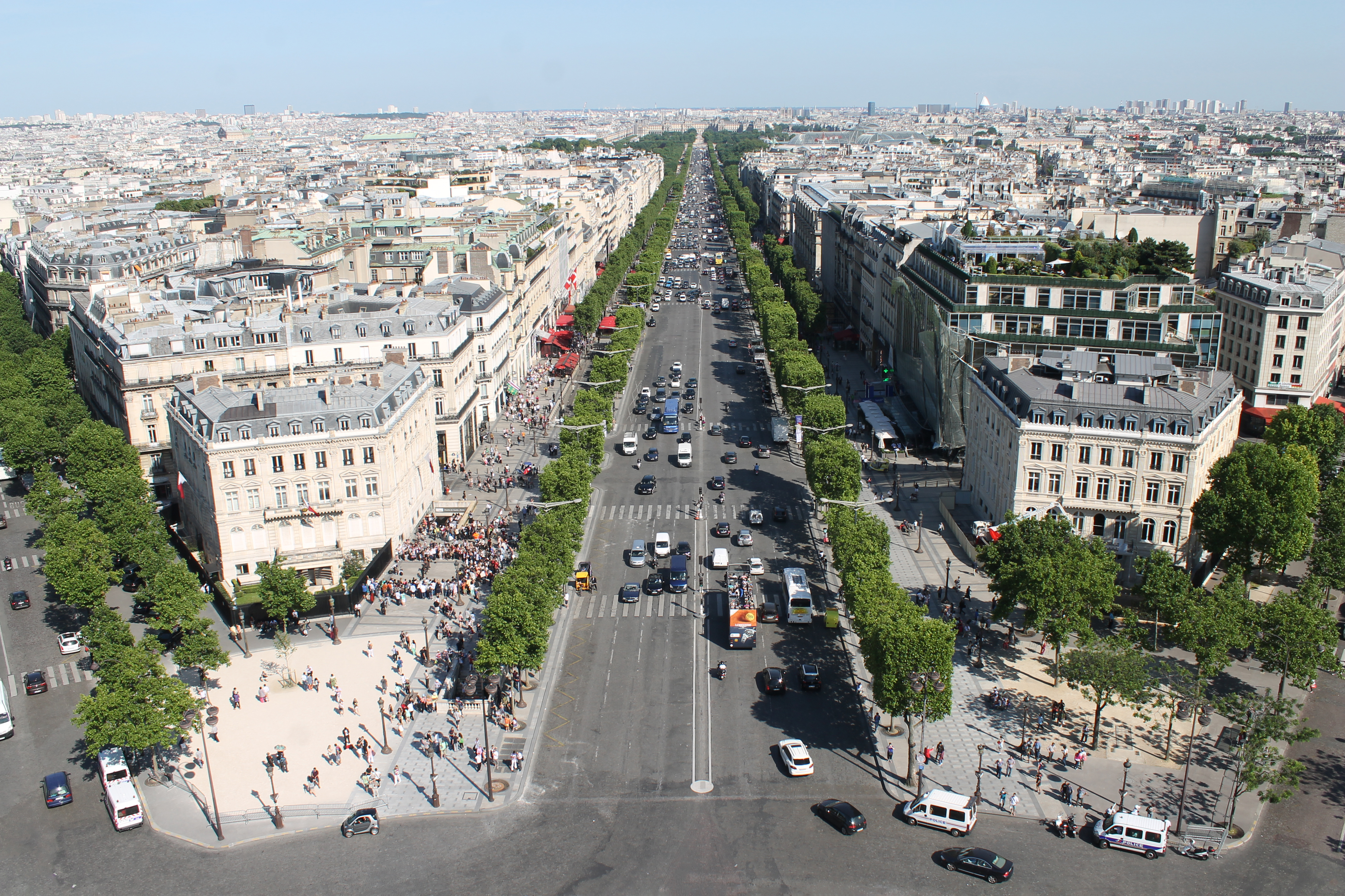 Champs-Élysées from the Arc de Triomphe, Paris.